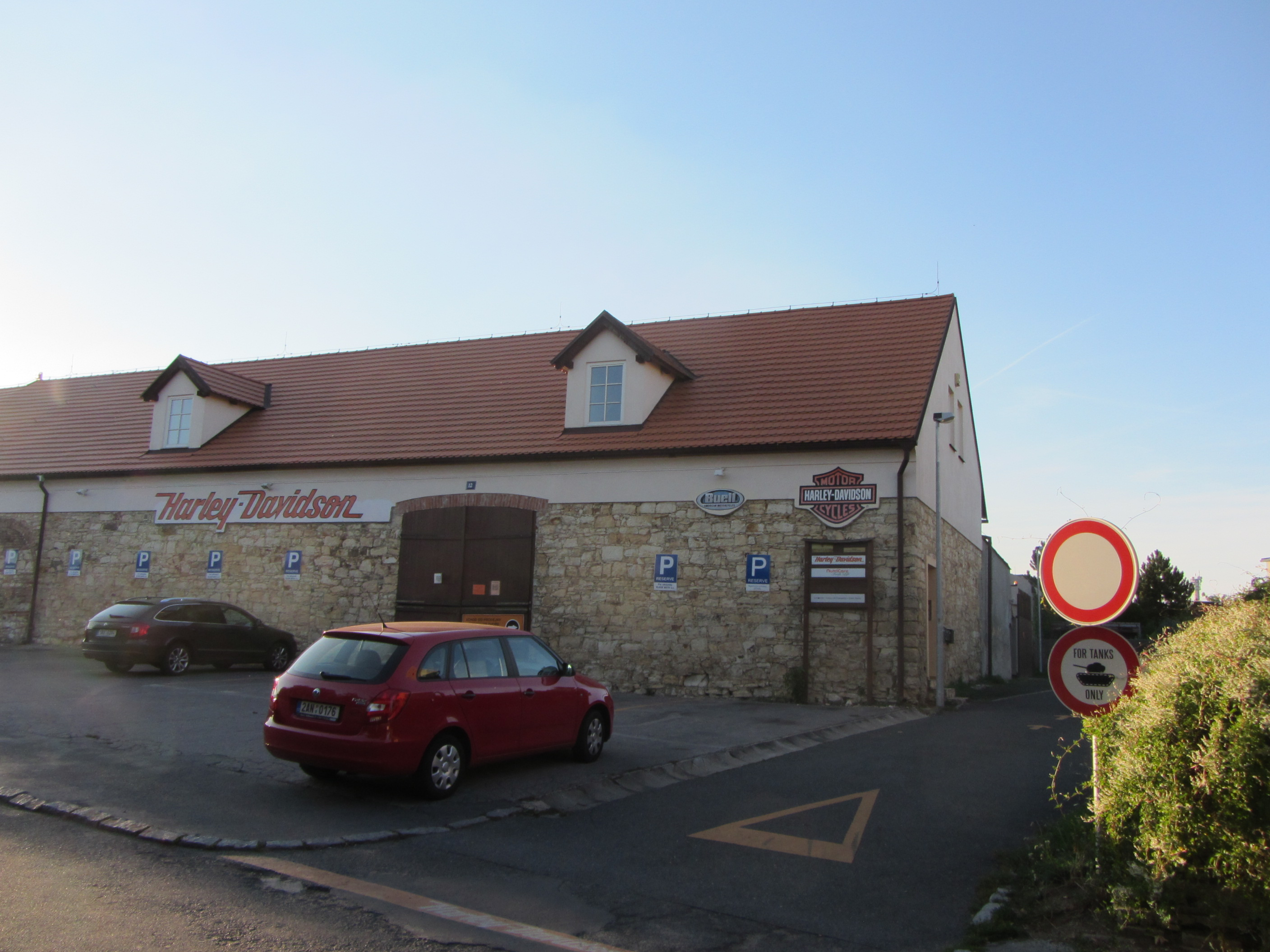 Former homestead Šalamounka, Prague